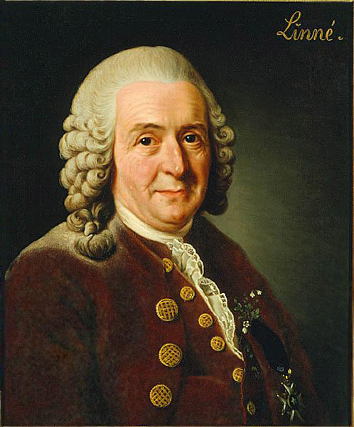 Digitally improved version of Alexander Roslin's painting of Carl von Linné. This particular version has had dust and missing specs of paint deleted.